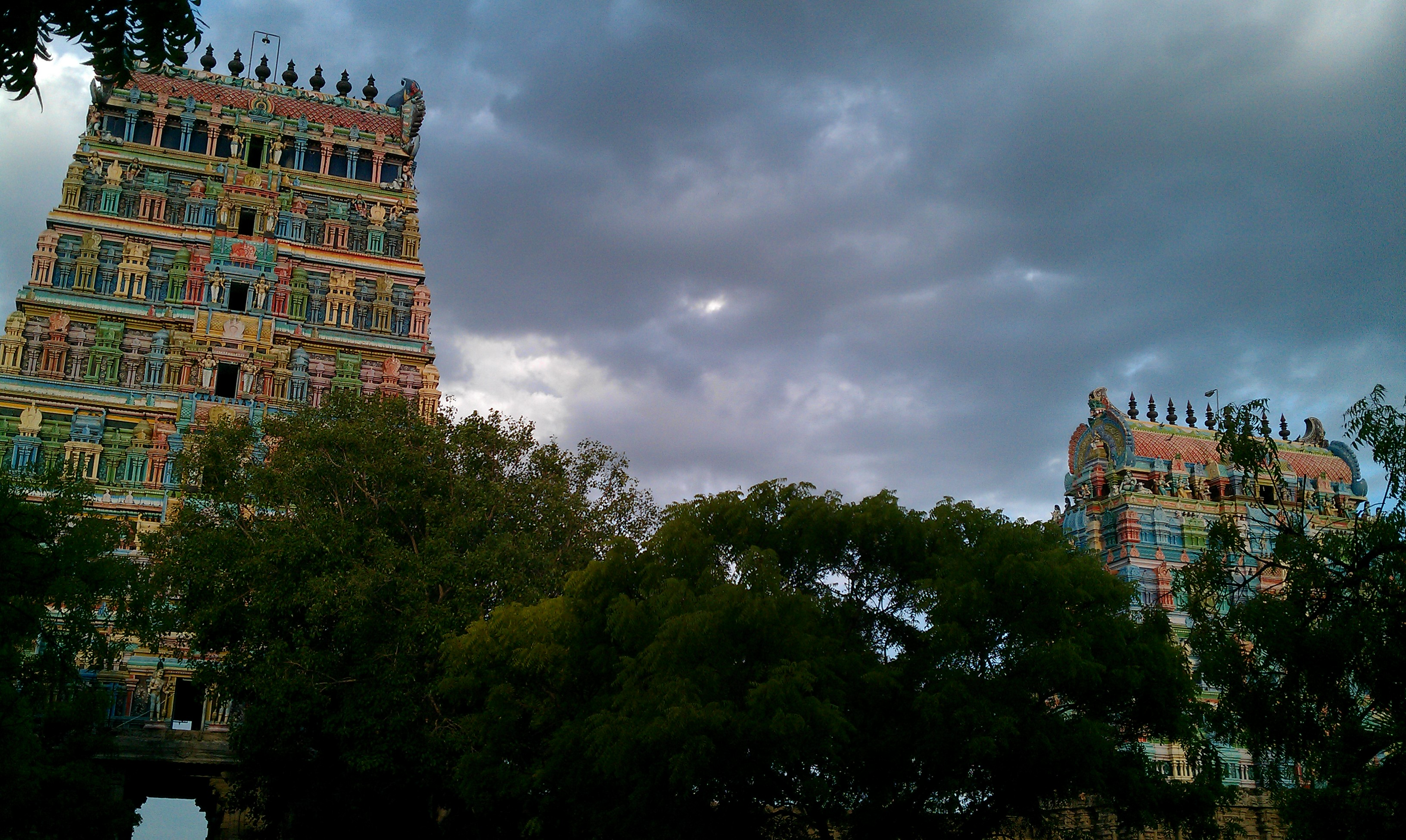 Uthiragosamangai